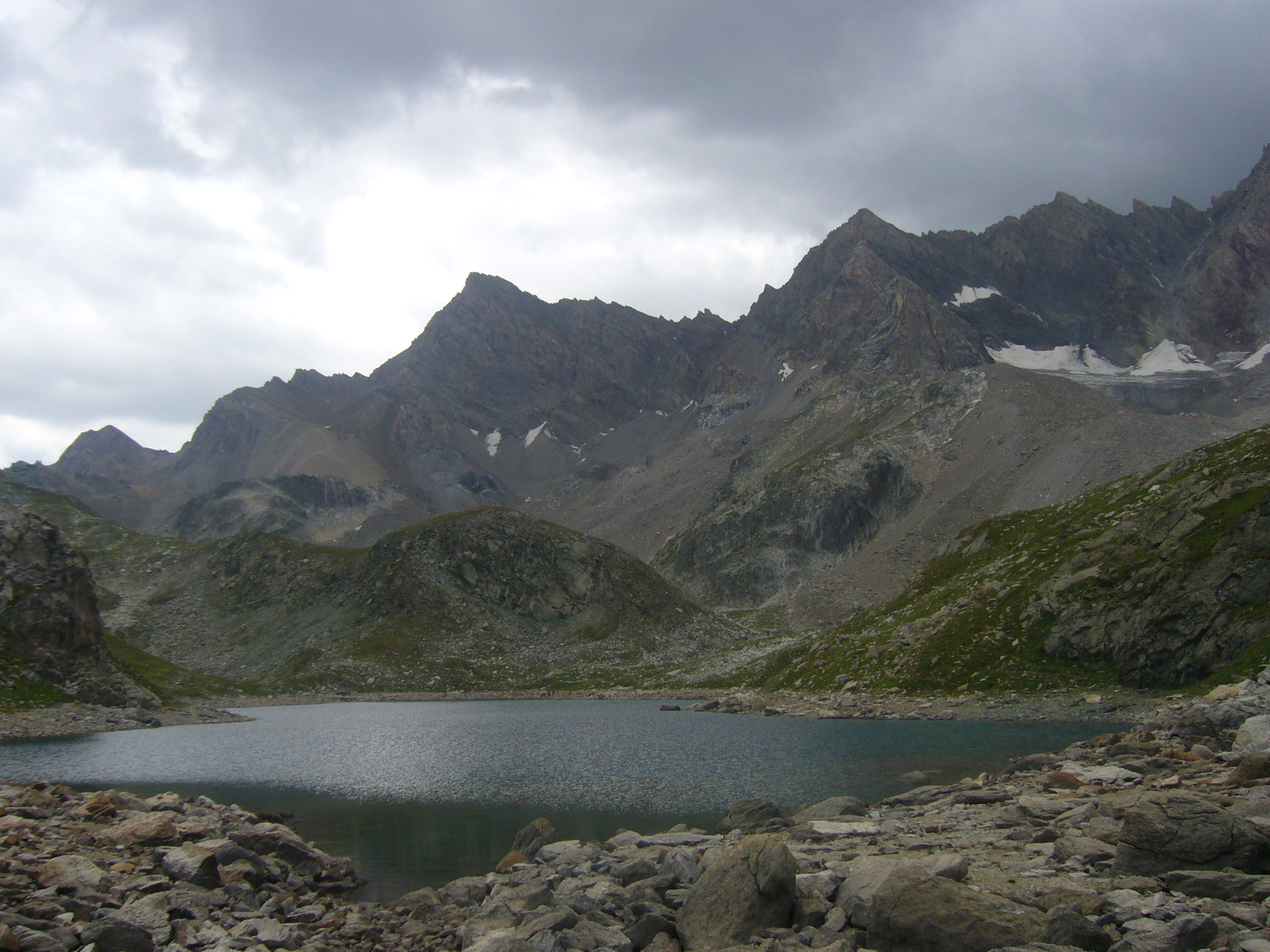 Le Lac principal du Marinets (French Alps). I took this photography in August 2006